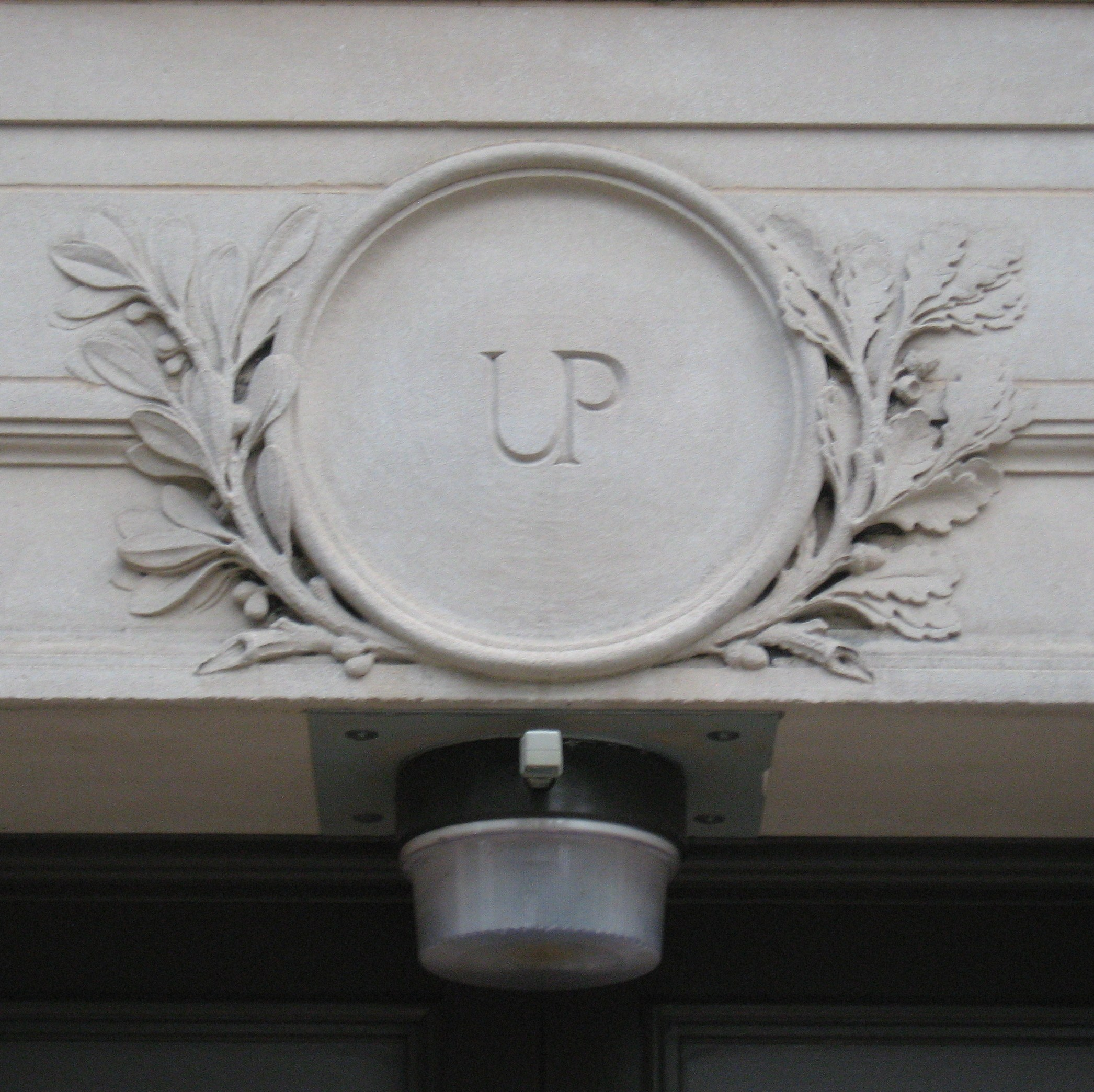 An alternate University of Pittsburgh logo inscribed on the side of Eberly Hall at University of Pittsburgh40°26′45.19″N 79°57′30.14″W / 40.4458861°N 79.9583722°W